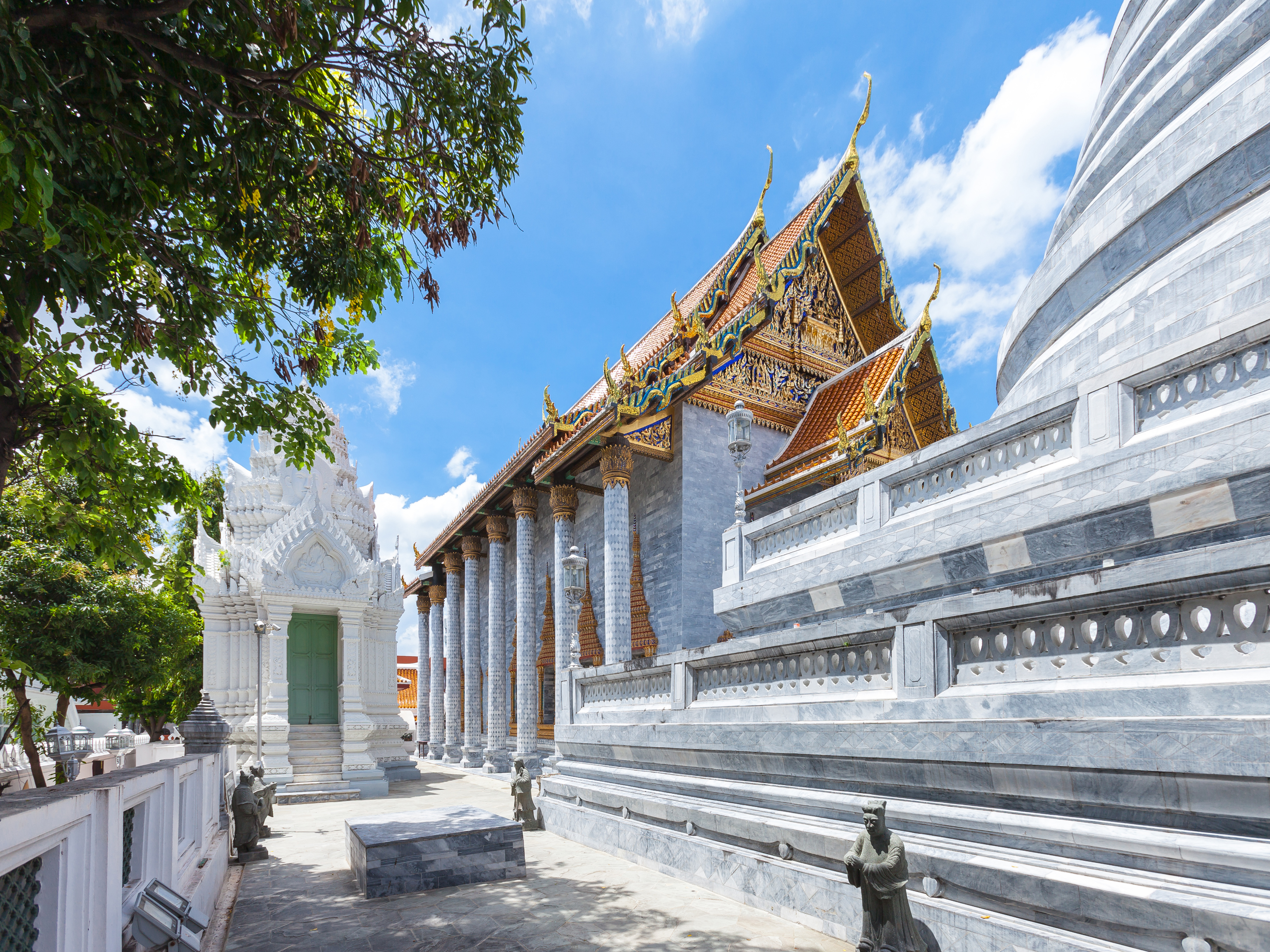 Ubosot or Phra Wihan of Wat Ratchapradit, Bangkok.